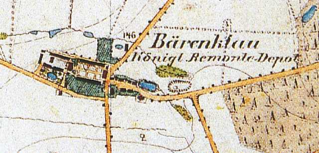 Remontedepot Bärenklau, Oberkrämer, Lkr. Oberhavel, Brandenburg, Germany, Detail from the Urmesstischblatt Sheet 3244 Kremmen, published in 1868